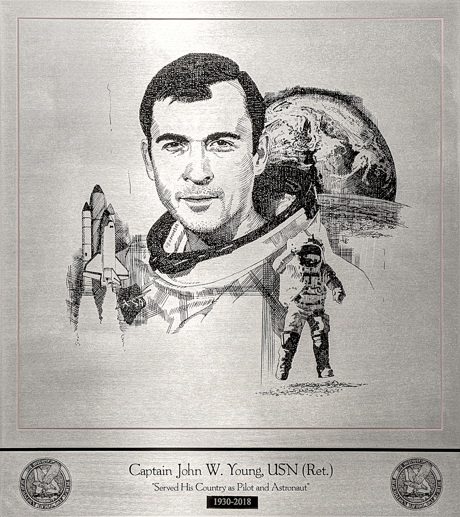 Captain John W. Young exhibit at the Georgia Aviation Hall of Fame; located at the Museum of Aviation, Robins Air Force Base